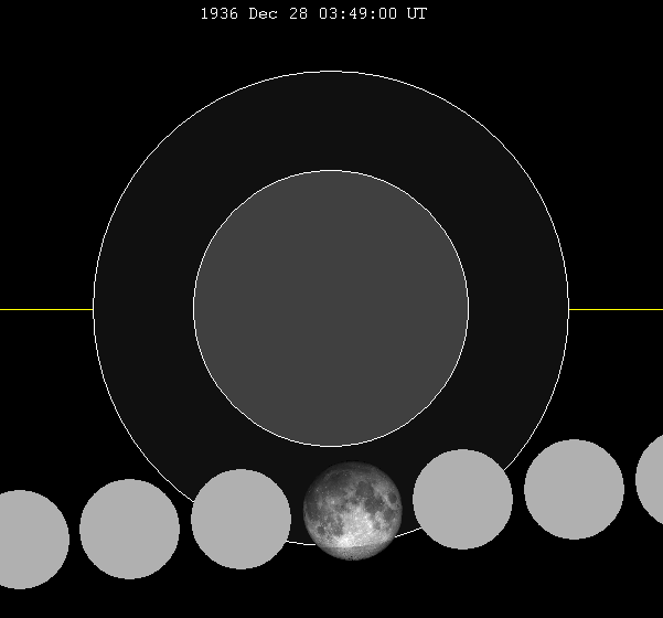 Lunar eclipse chart